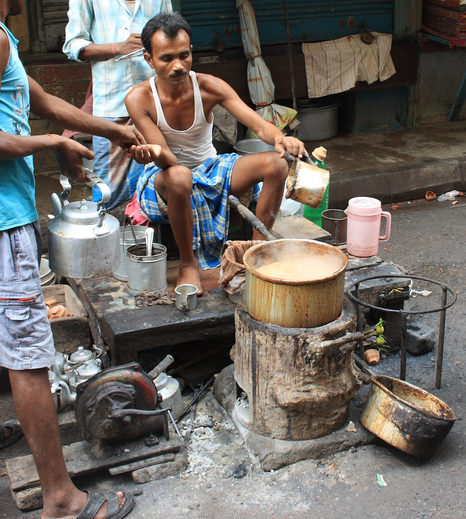 A tea cooker (chai walla) cooking spiced tea (masala chai) on a coal fire in a street of Kolkata.